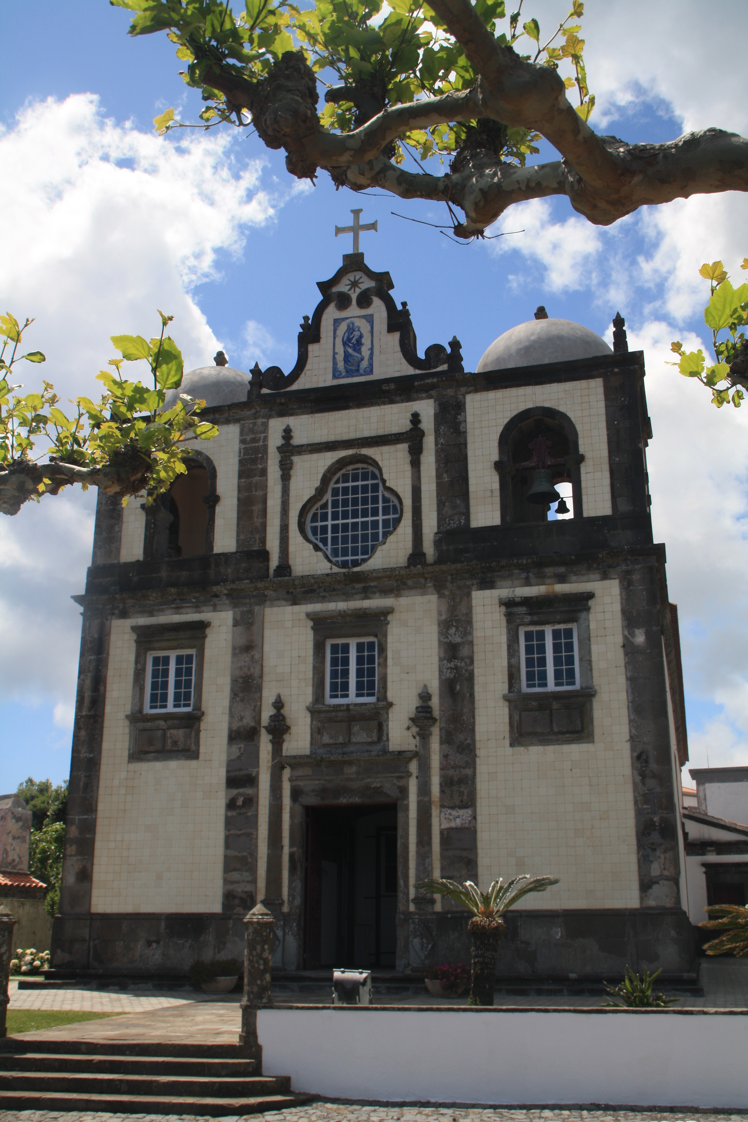 Azores, Flores, Lajes das Flores, Church Igreja Matriz Nossa Senhora do Rosário